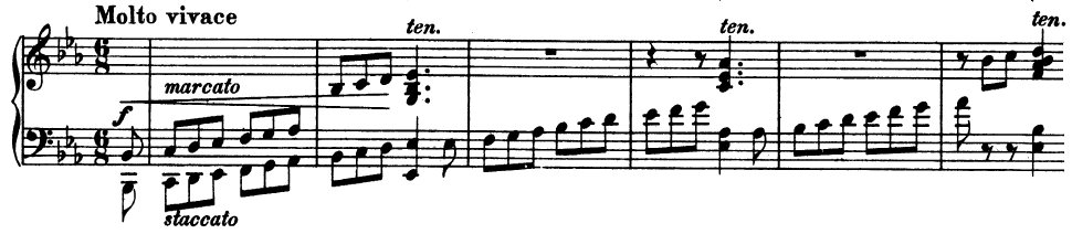 Piano Quintet Schumann: Scherzo: Molto vivace (part 3) - Opening